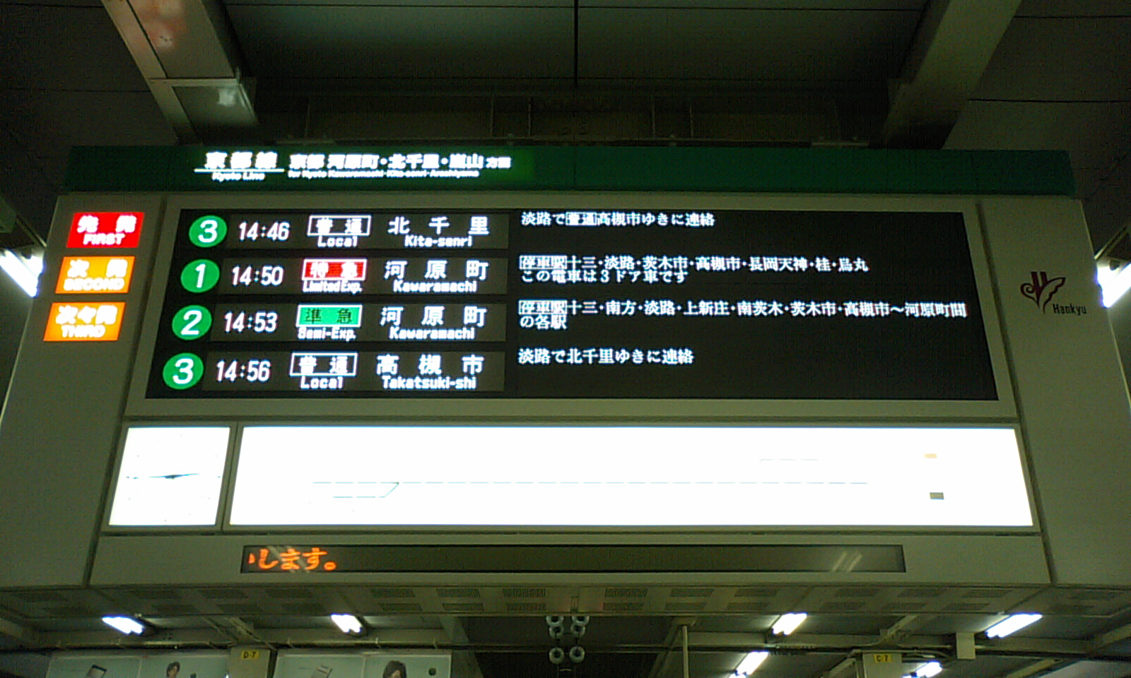 Hankyu railway Umeda station, display